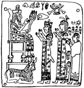 Ishpuini